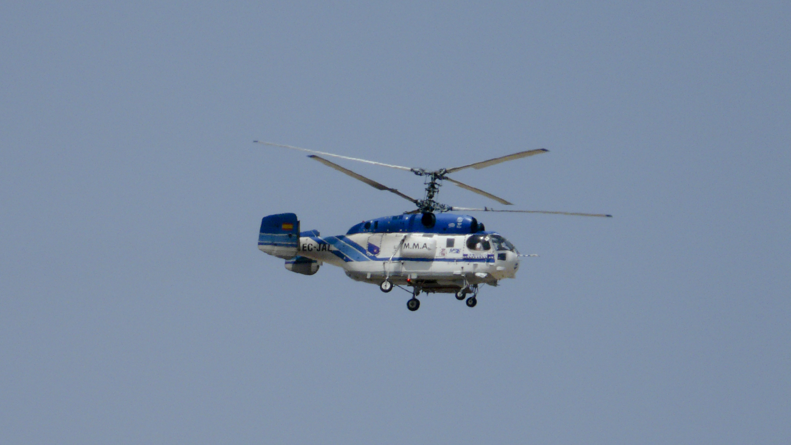 Helisureste Kamov Ka-32A11BC Helix EC-JAL